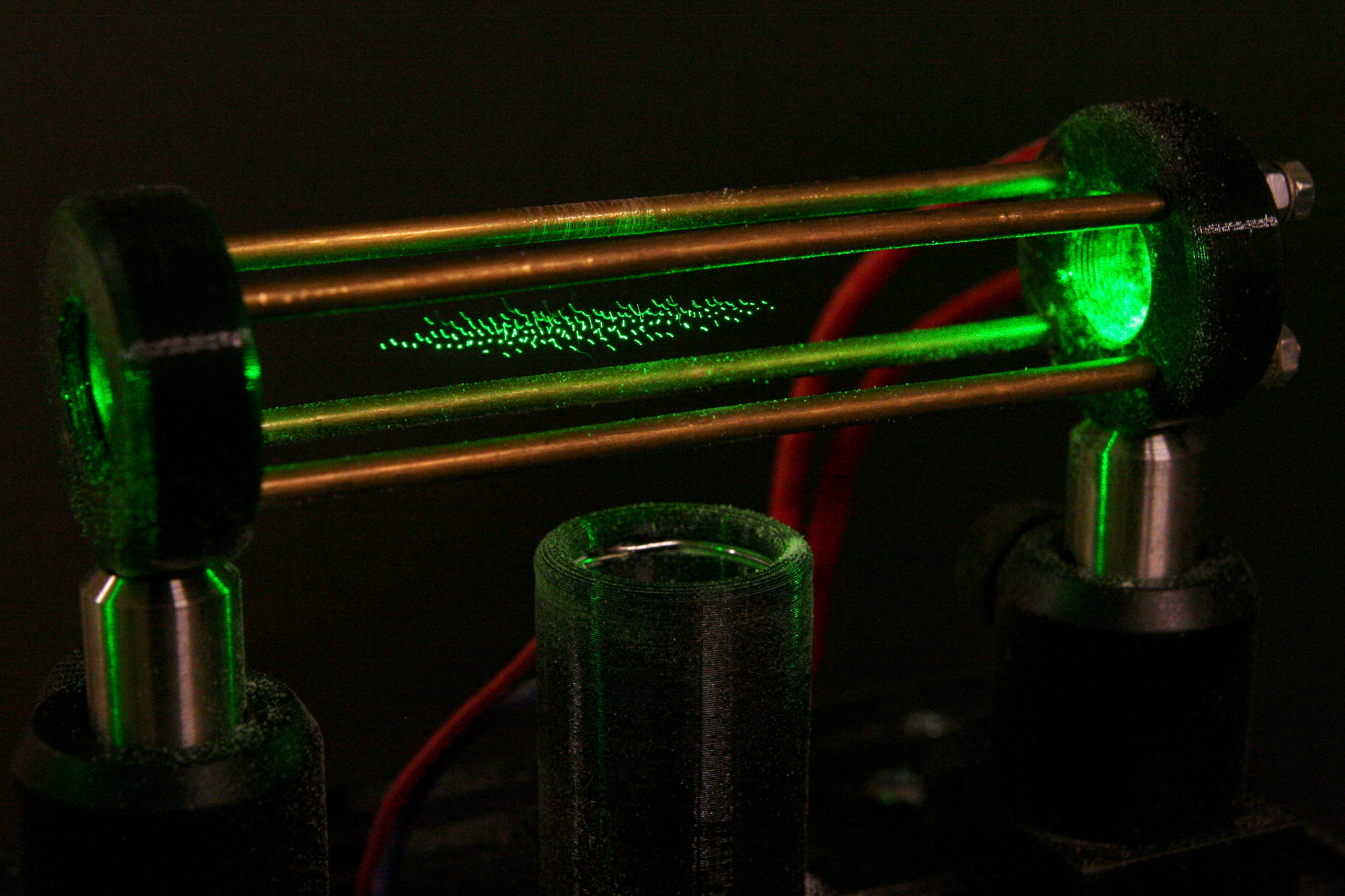 Charged flour grains cought in quadrupole trap